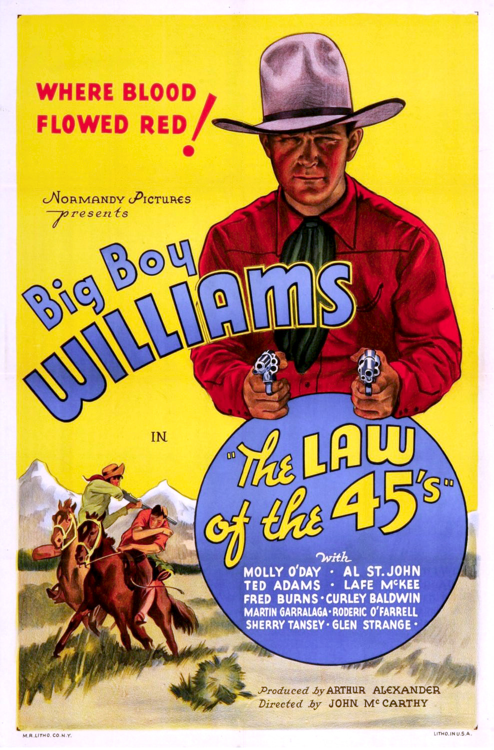 Poster for the 1935 film Law of the 45s. The item has no copyright markings on it as can be seen in the links above. At lower right is Litho in USA. At lower left is M R Litho Co. NY.